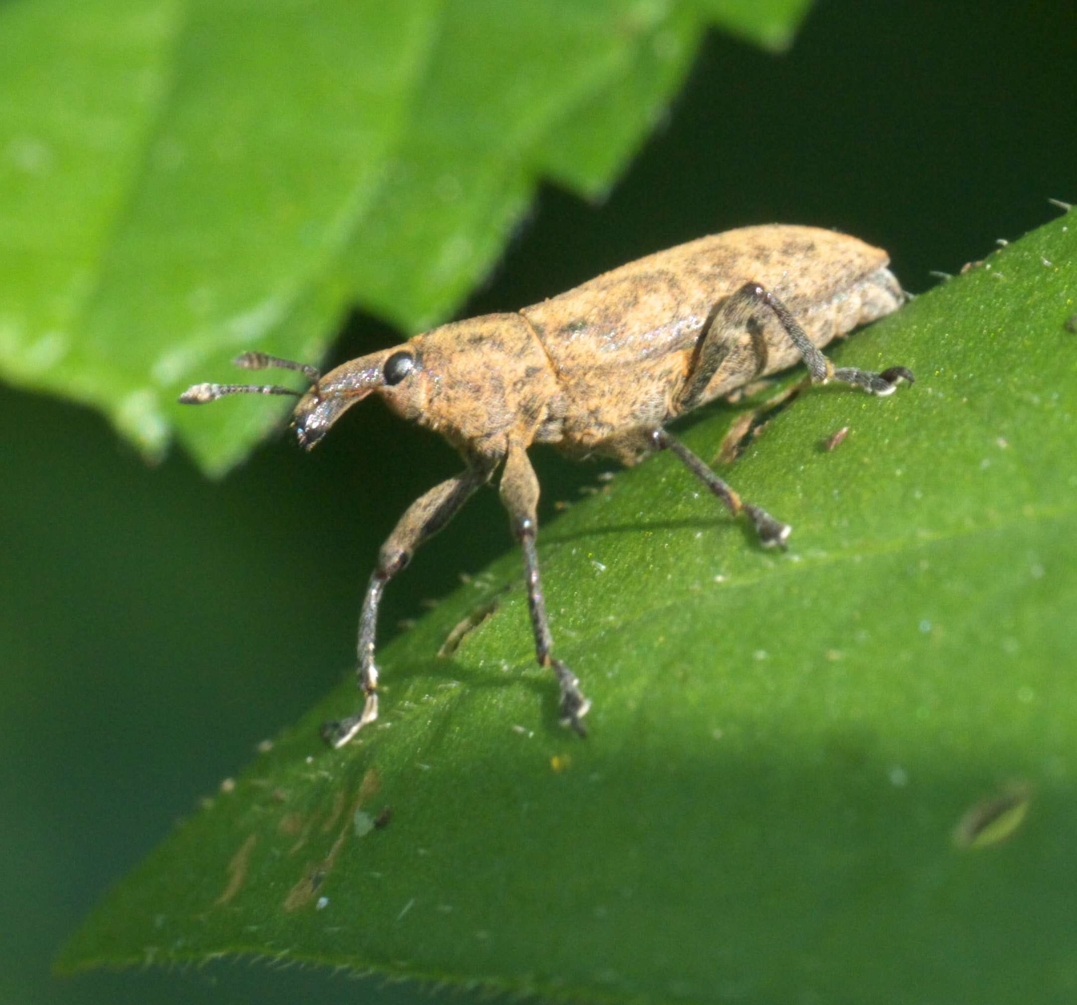 Lixus concavus, rhubarb weevil, ID Confidence: 87